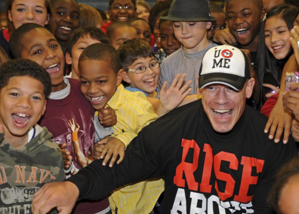 John Cena posing with various children in December 2011